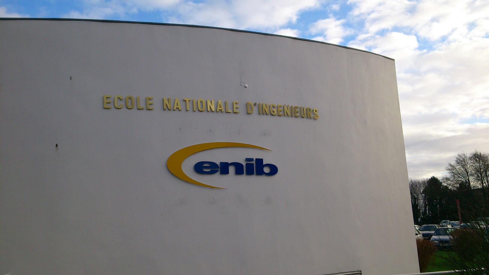 ENIB sign